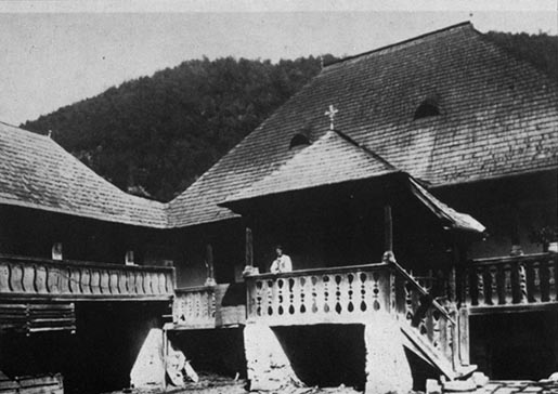 Romanian noble's mansion in Bucium village, Apuseni Mountains, today Alba County, Romania